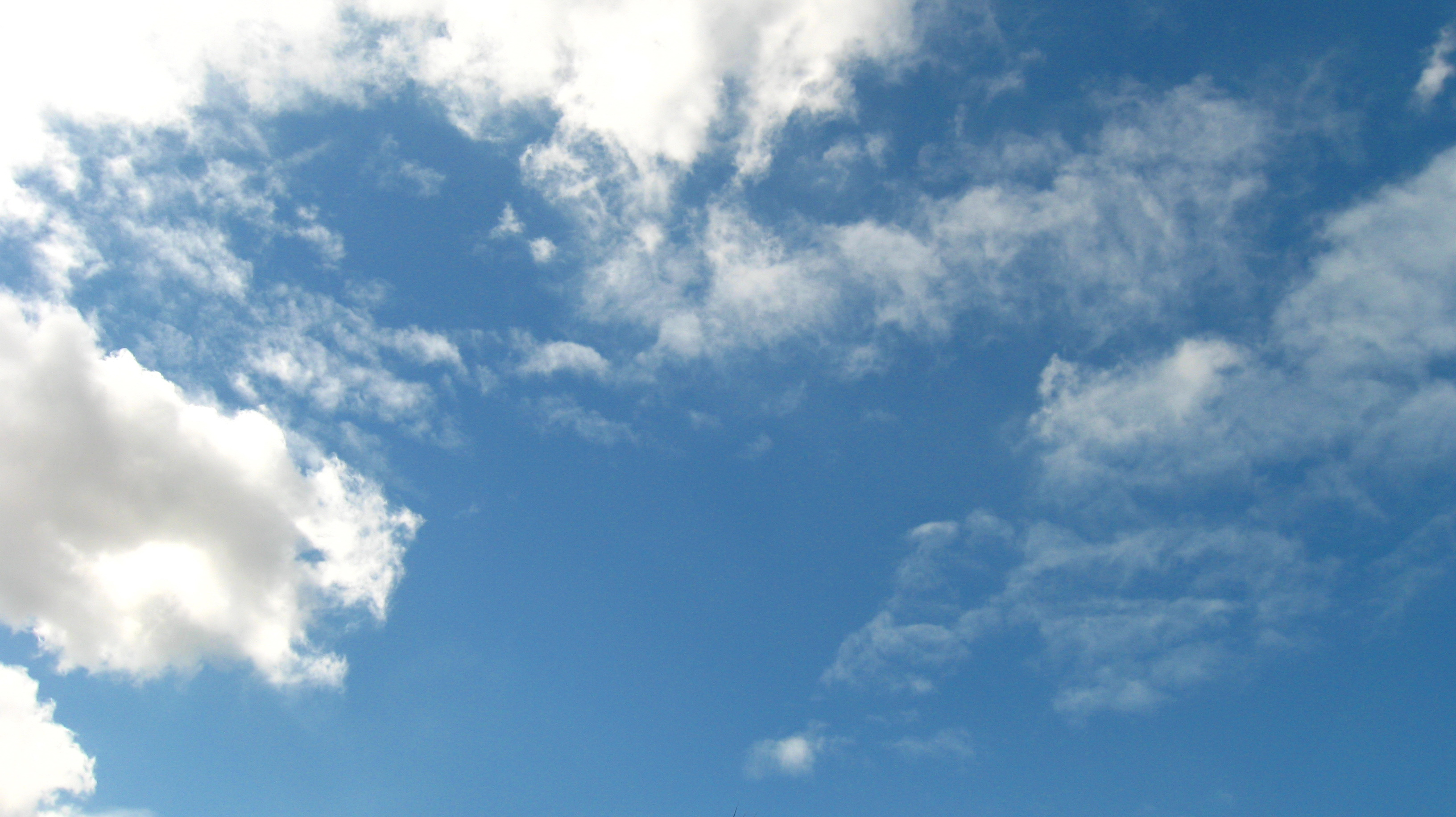 Appearance of the sky provides vital clues for the weather forecasters, as the photographed blue sky with white clouds appeared on Dhaka, Bangladesh when significant development of flood was underway in many parts of the country.